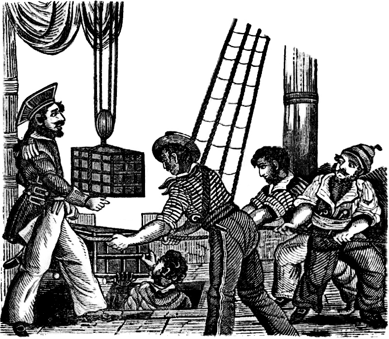 Captain (Henry) Every/Avery receiving the three chests of Treasure on board of his Ship as depicted in The Pirates Own Book.